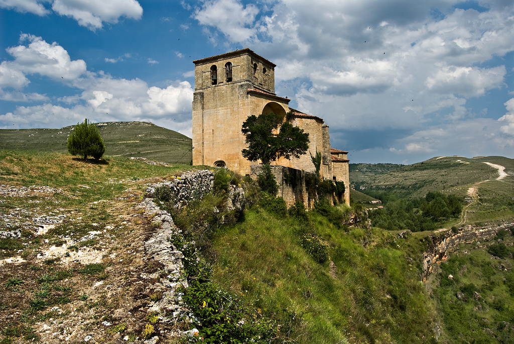 Church of Sedano, Burgos, Spain.